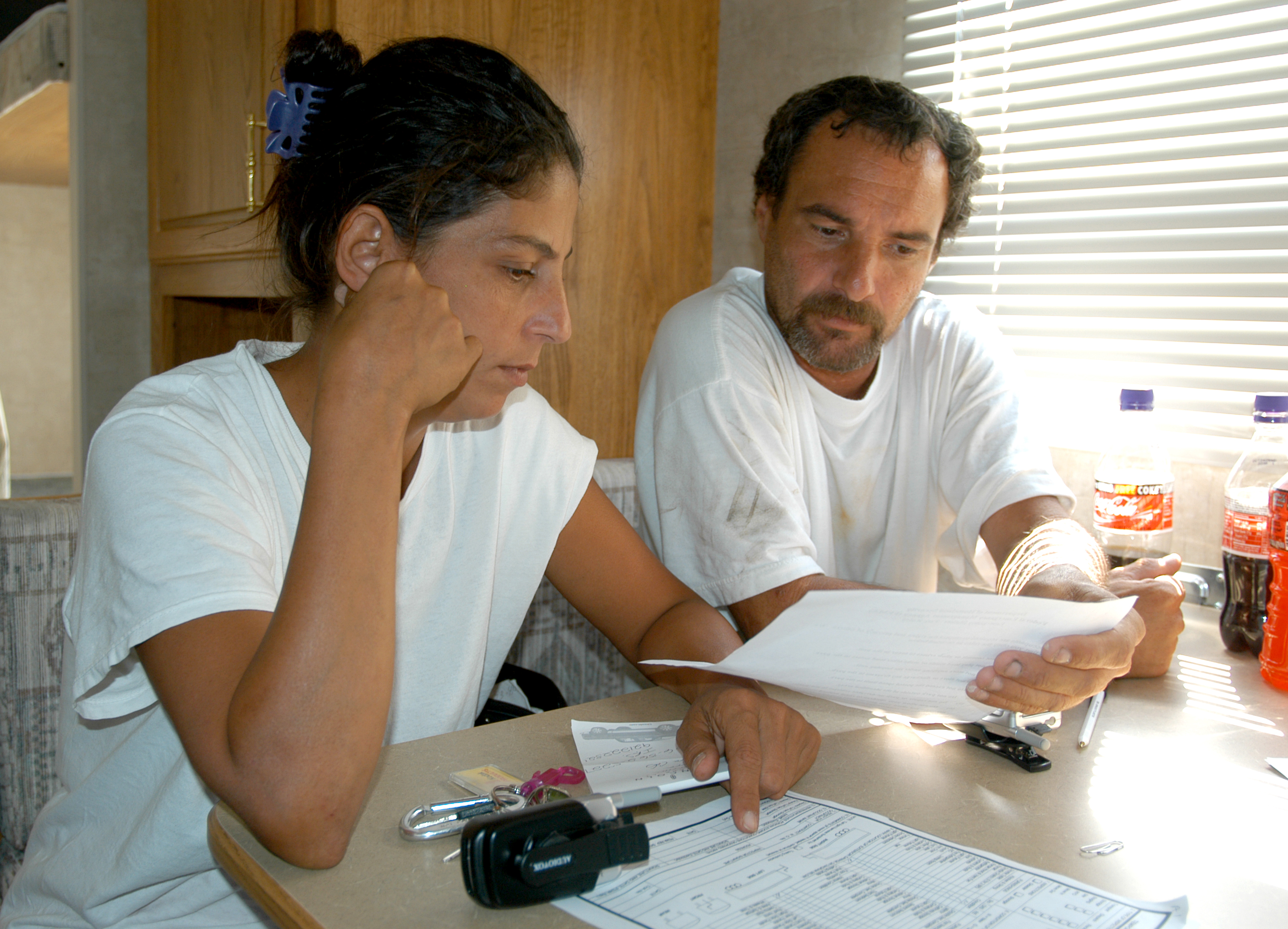 Patterson, La., September 11, 2005 - Elizabeth and Victor Burregi sit in a FEMA travel trailer and read the FEMA lease agreement. They evacuated from New Orleans with their family and need temporary housing. Travel trailers are one of several housing sources FEMA provides for those needing housing after Hurricane Katrina. Photo by Win Henderson / FEMA photo.